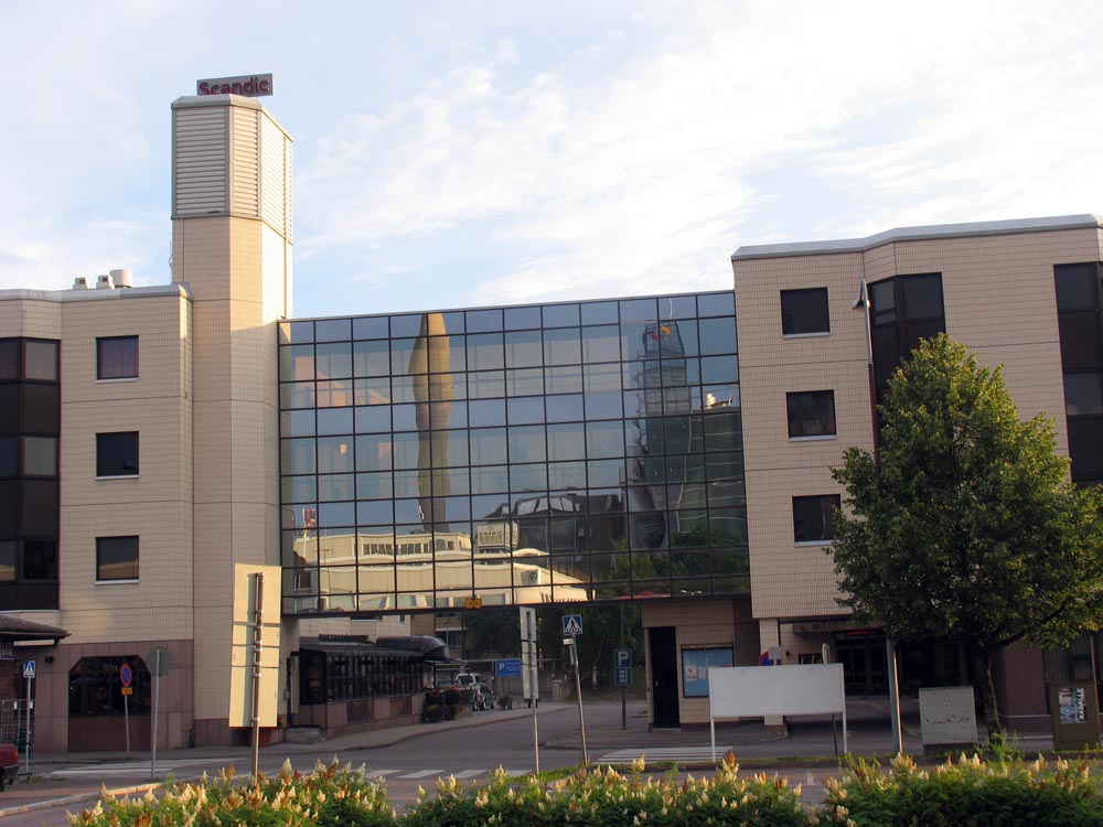 Hotel Oscar, Varkaus-hall and silhuette of Varkaus pulp factories